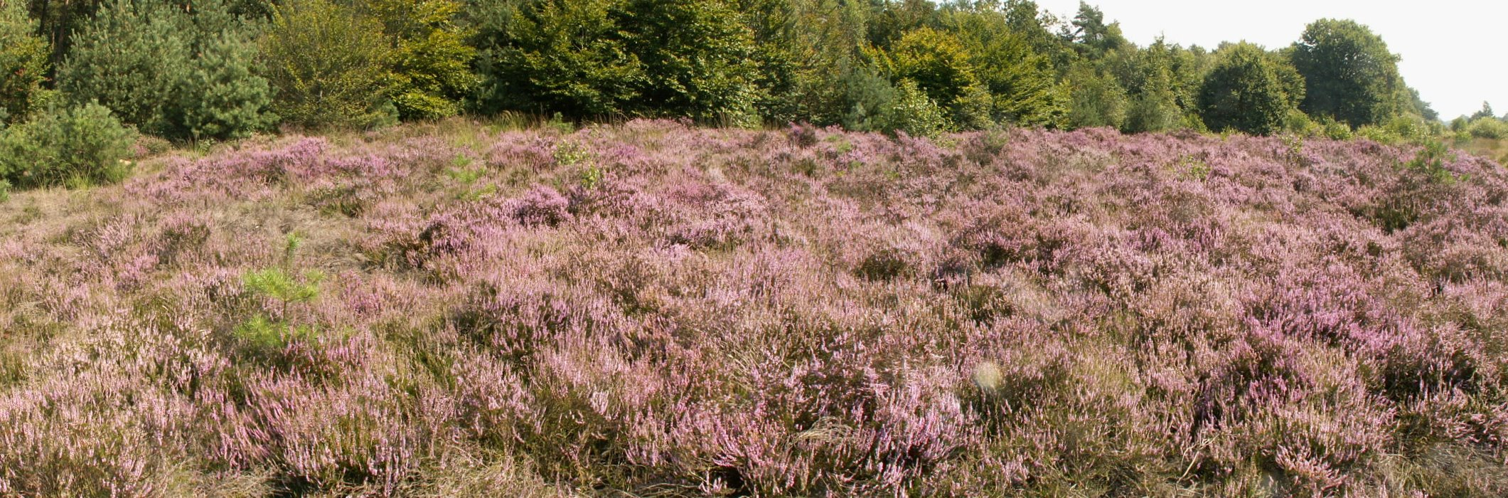 Older heath in flower near Ede Gelderland, the Netherlands